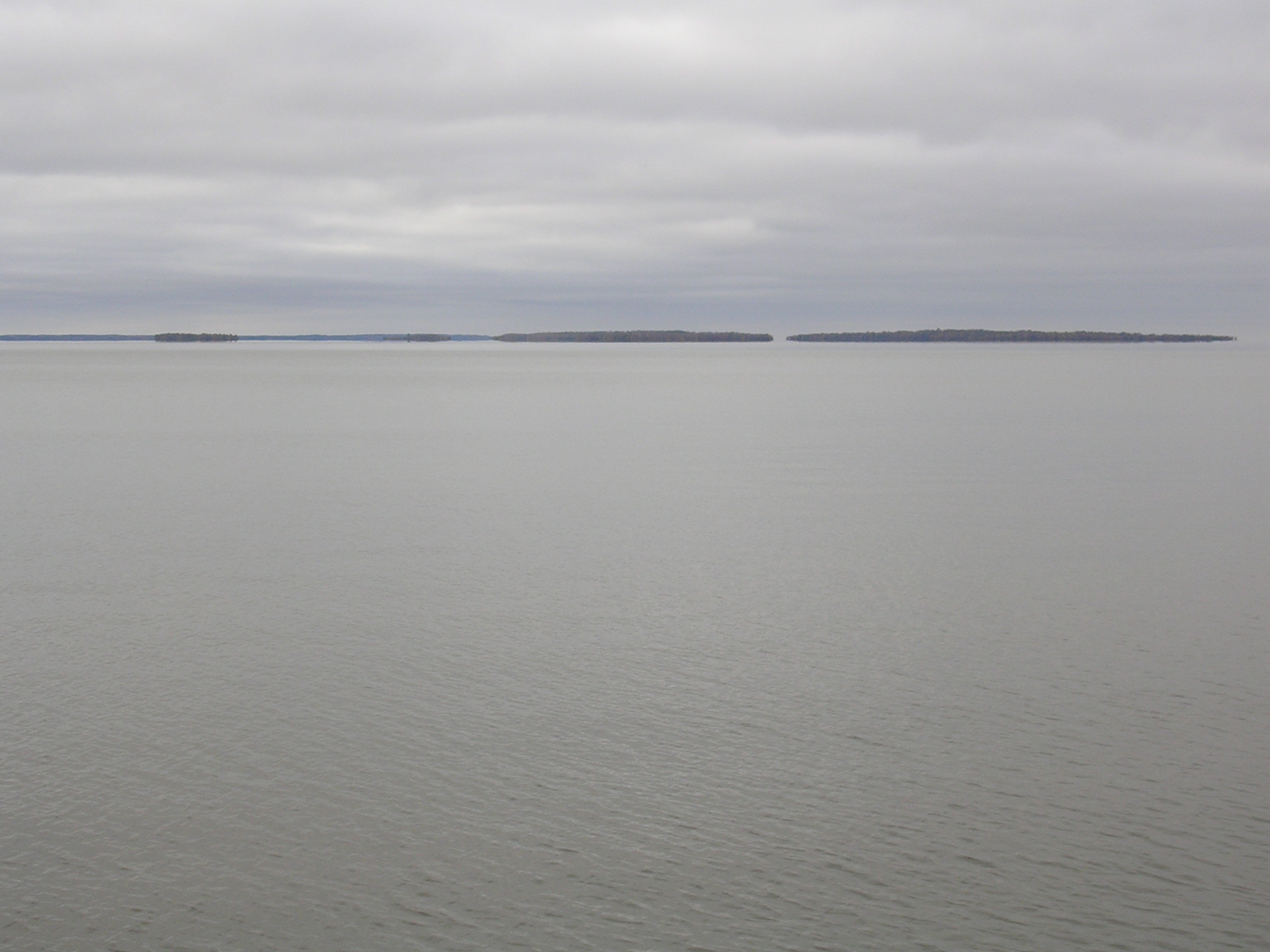 Manitou Islands in lake Nipissing